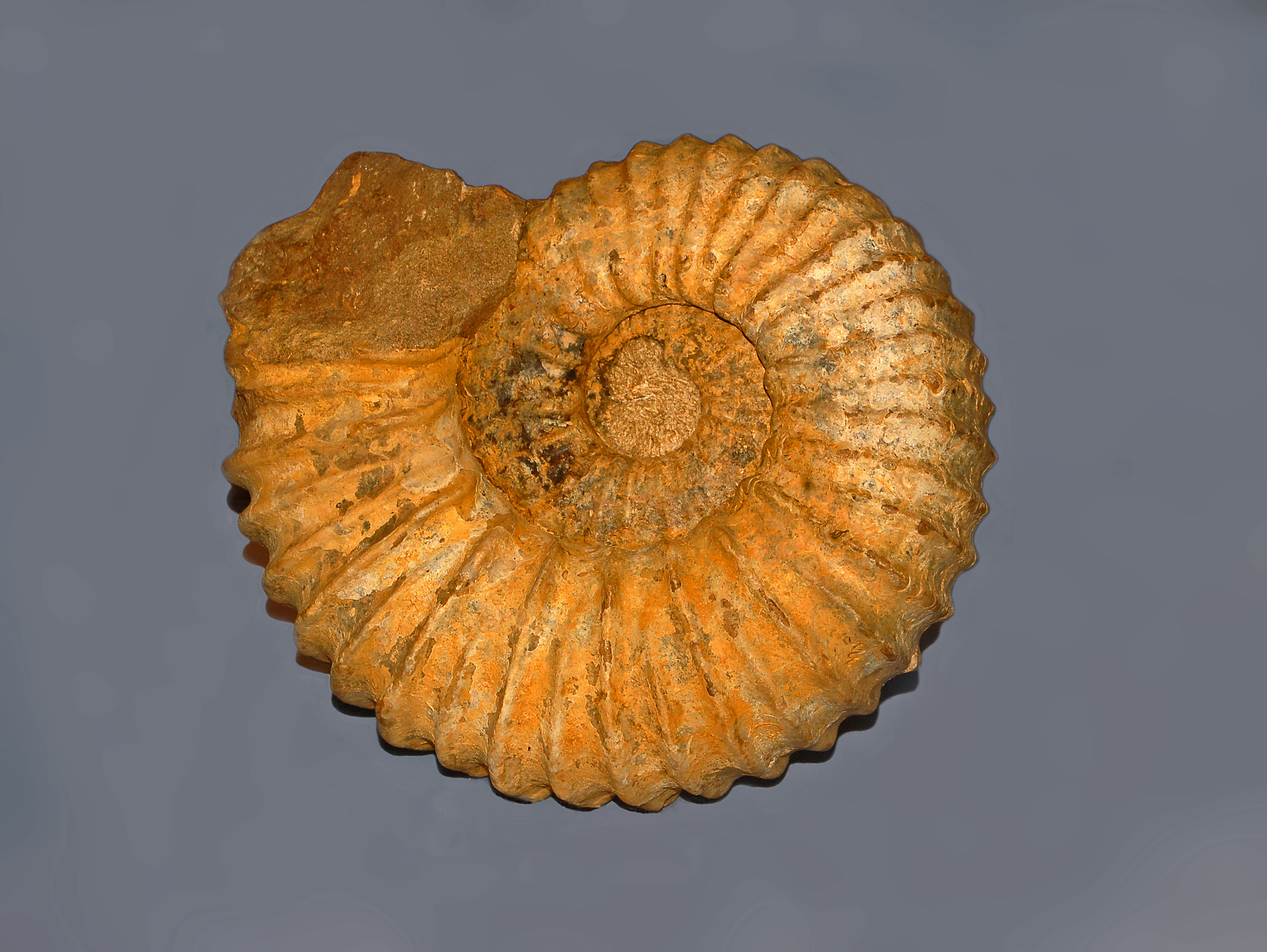 Mantelliceras tuberculatum – Cretaceous (Cenomanian) from Madagascar